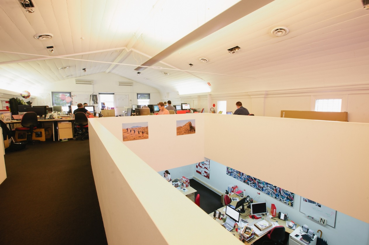 RedBalloon Offices in Pyrmont